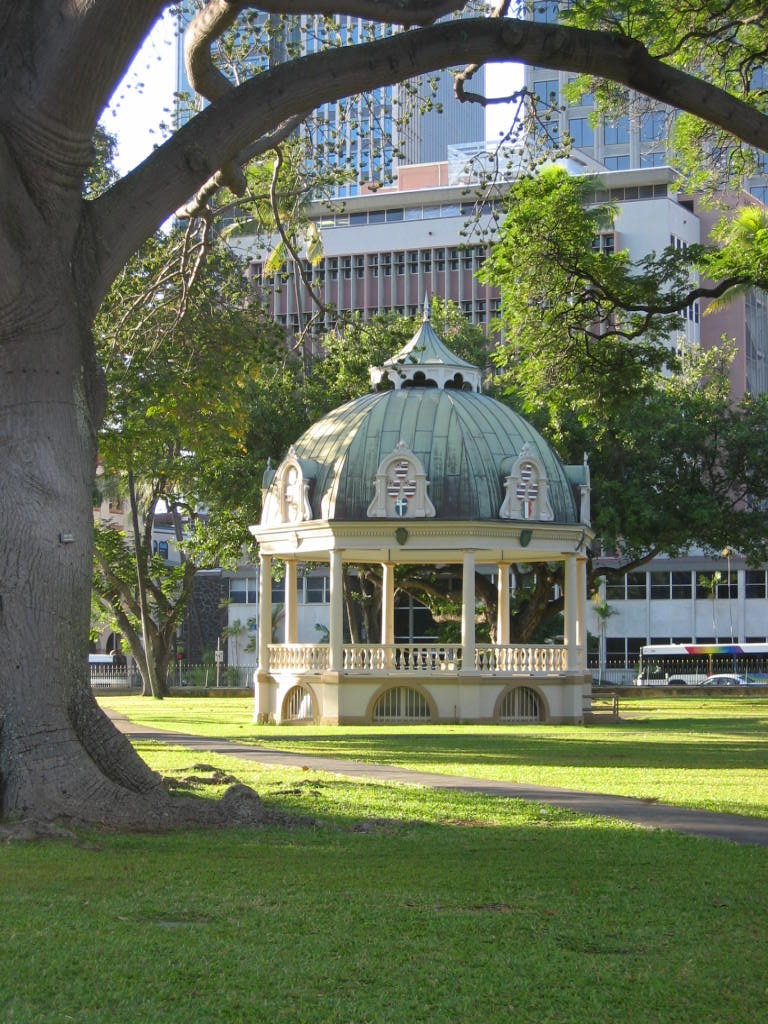 19th century Royal Coronation Pavilion — at the Iolani Palace, Hawaii. Taken by User:Jiang on December 23, 2005.